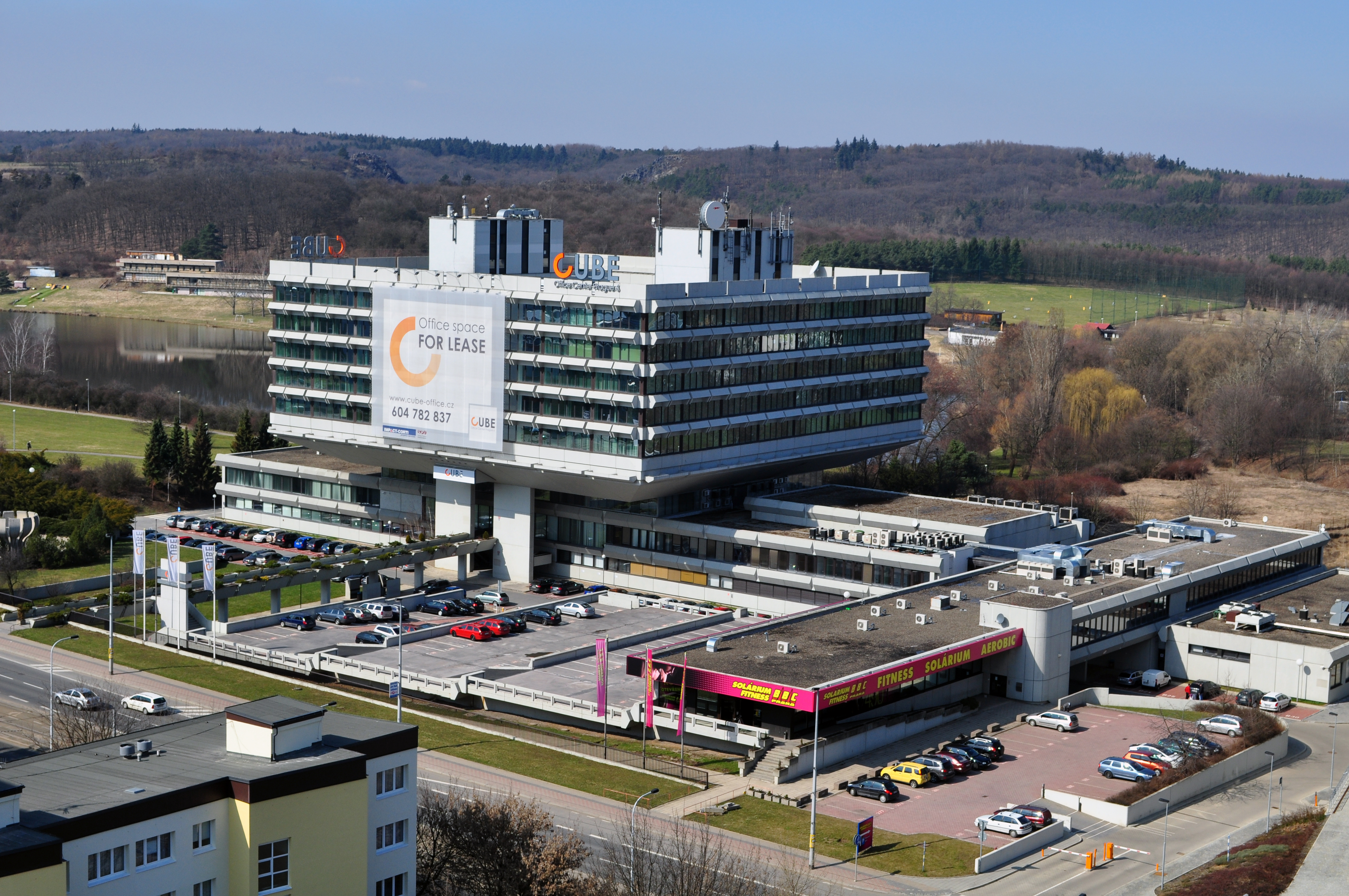 Building of former Koospol, later Citybank, now Cube.